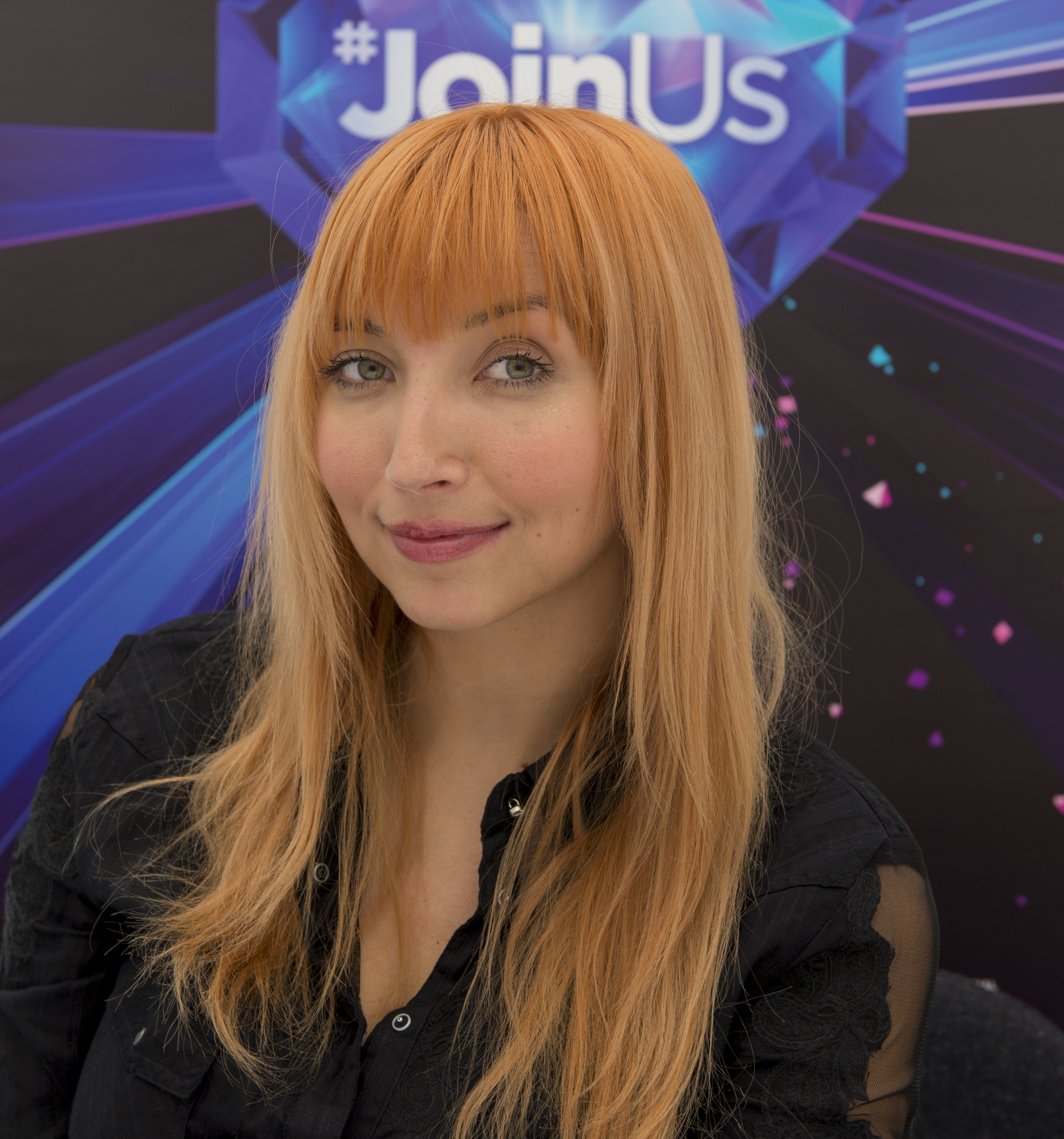 Tanja Mihhailova at a Meet & Greet during the Eurovision Song Contest 2014 Copenhagen. (Help translate this text)